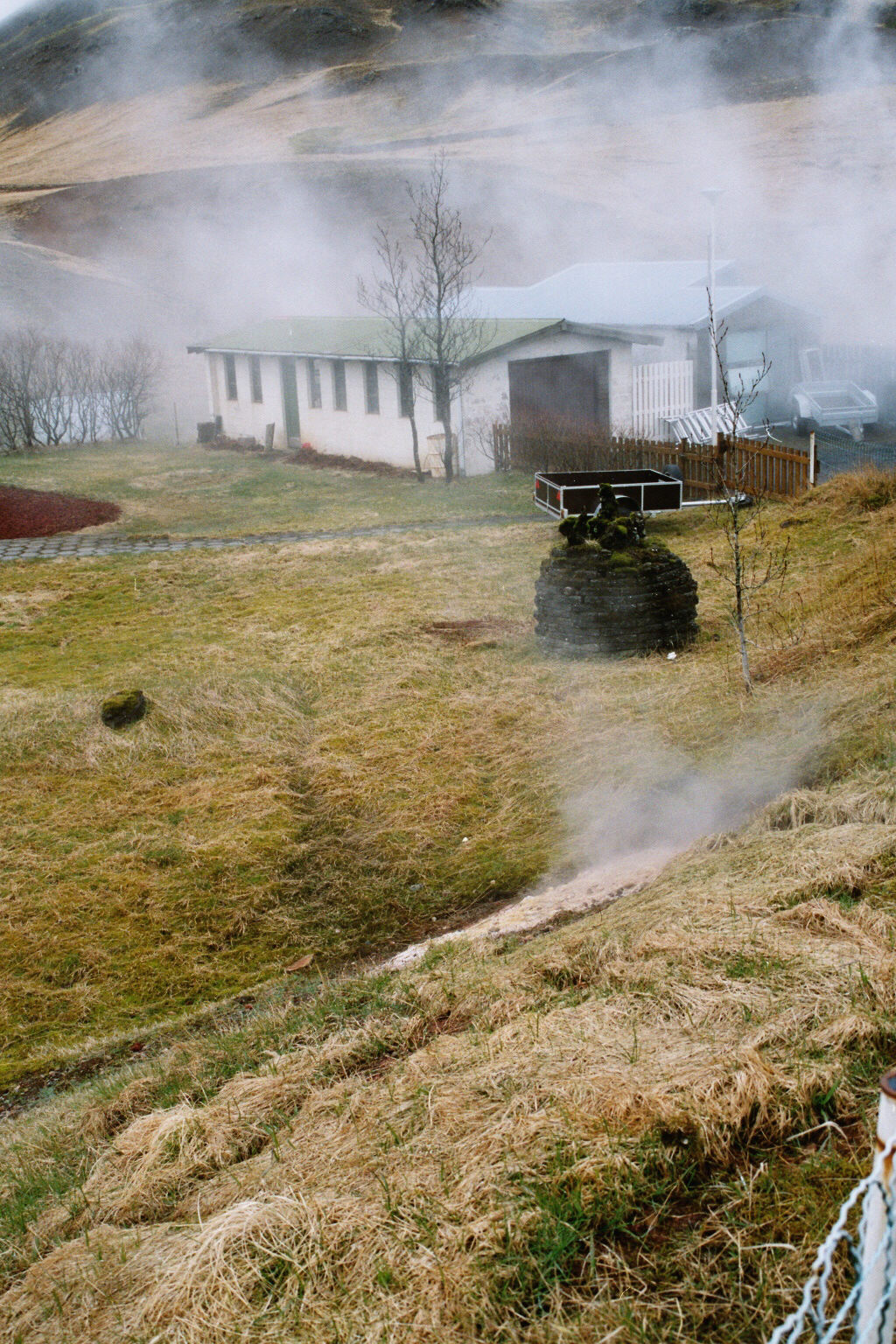 Hveragerdi, Iceland Photograph: Reykholt Source: FR